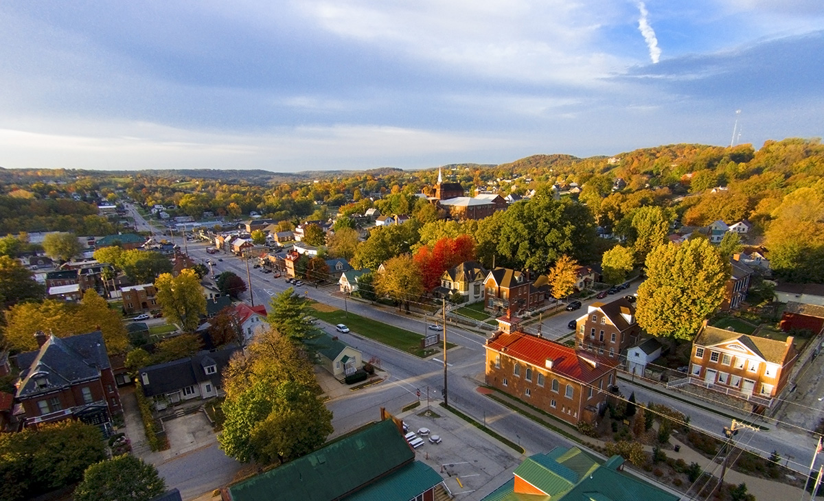 Early morning sun lights up the fall colors down Market Street in Hermann, Missouri